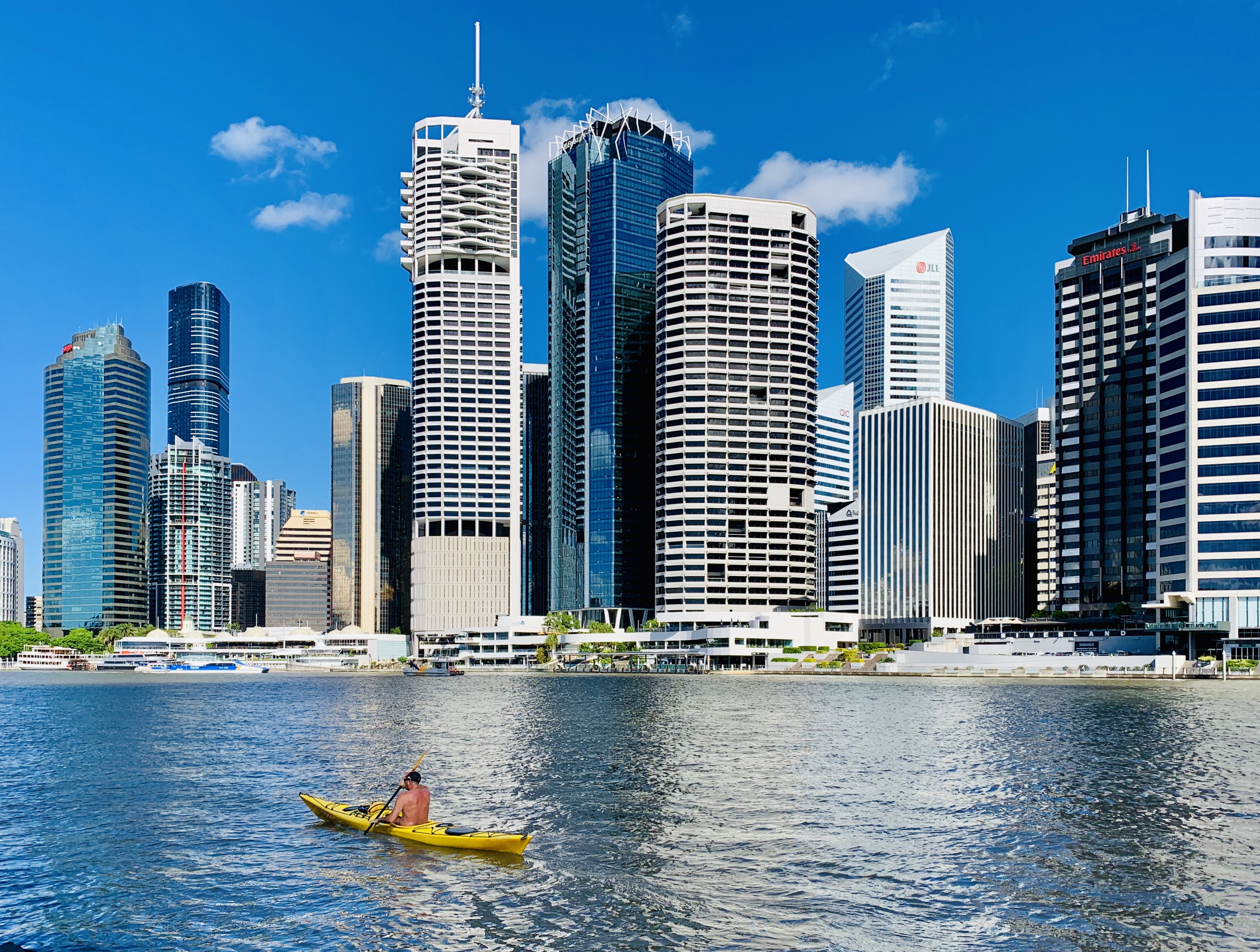 River views of Brisbane CBD seen from Kangaroo Point, Queensland in April 2019